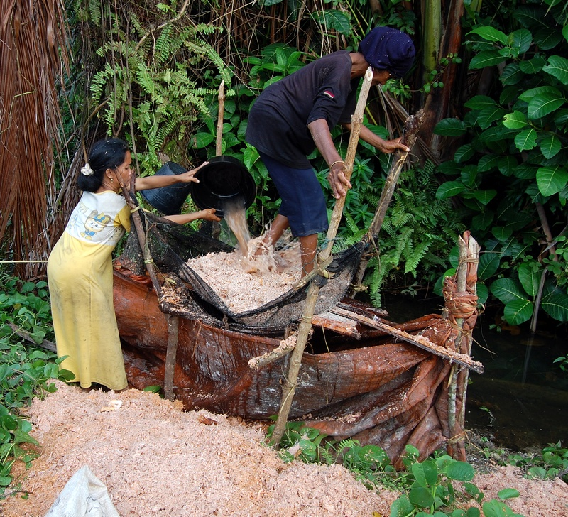 Washing the pith of sago palm (Metroxylon sagu); Simeulue, IndonesiaBahasa Indonesia: Memerah dan membilas serbuk empulur sagu untuk mengekstrak patinya; Teupah Selatan, Simeulue